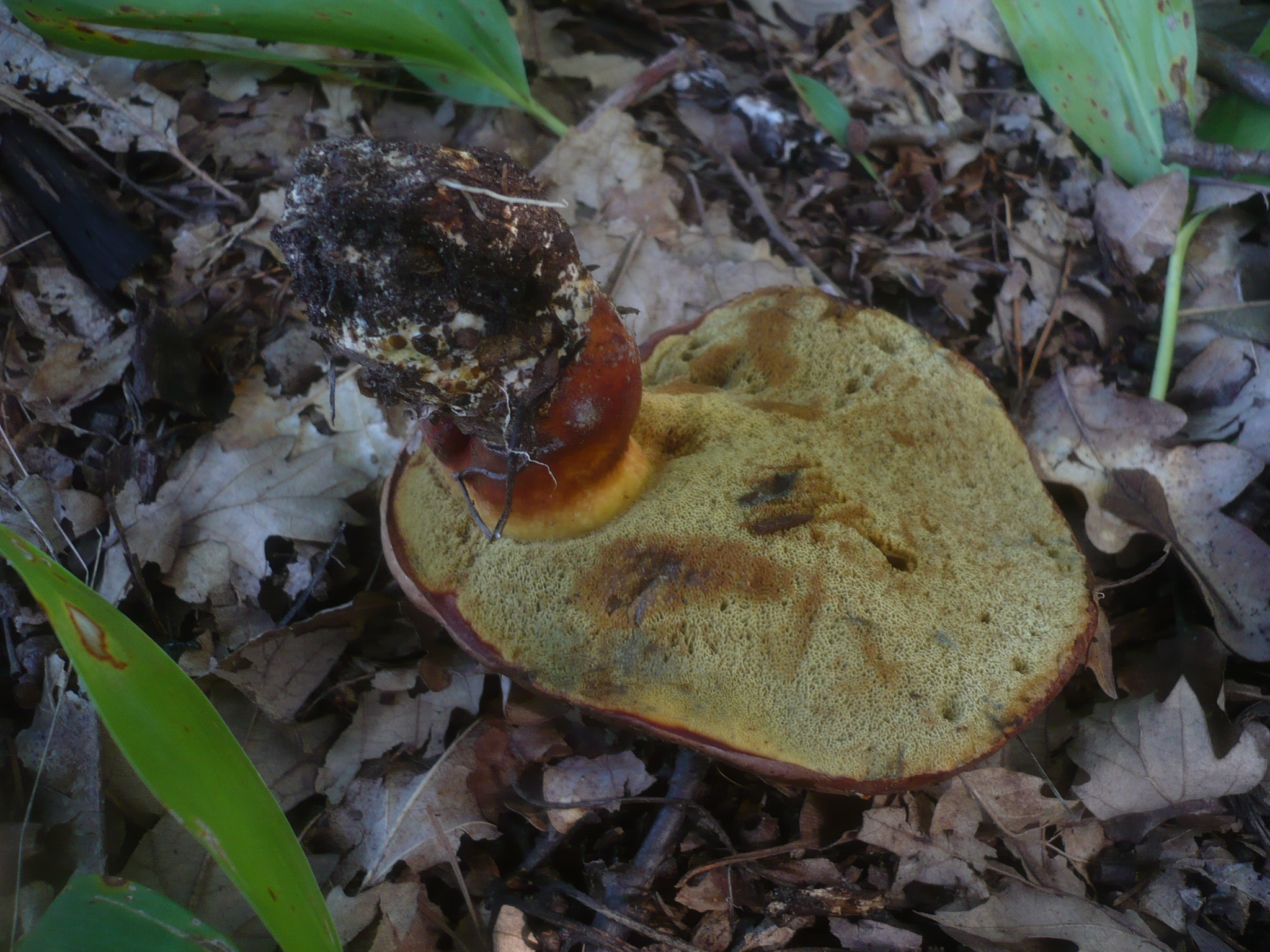 Boletus fragrans Vittad. Image location: Gornja loza, Großwarasdorf, Bezirk Oberpullendorf, Burgenland, Austria in WU Recognized by sight For more information about this, see the observation page at Mushroom Observer.